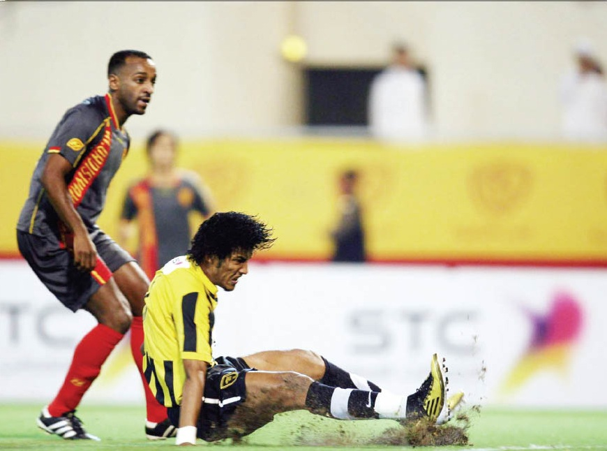 Naif Hazazi, a Striker for Al-Ittihad and Saudi national team.